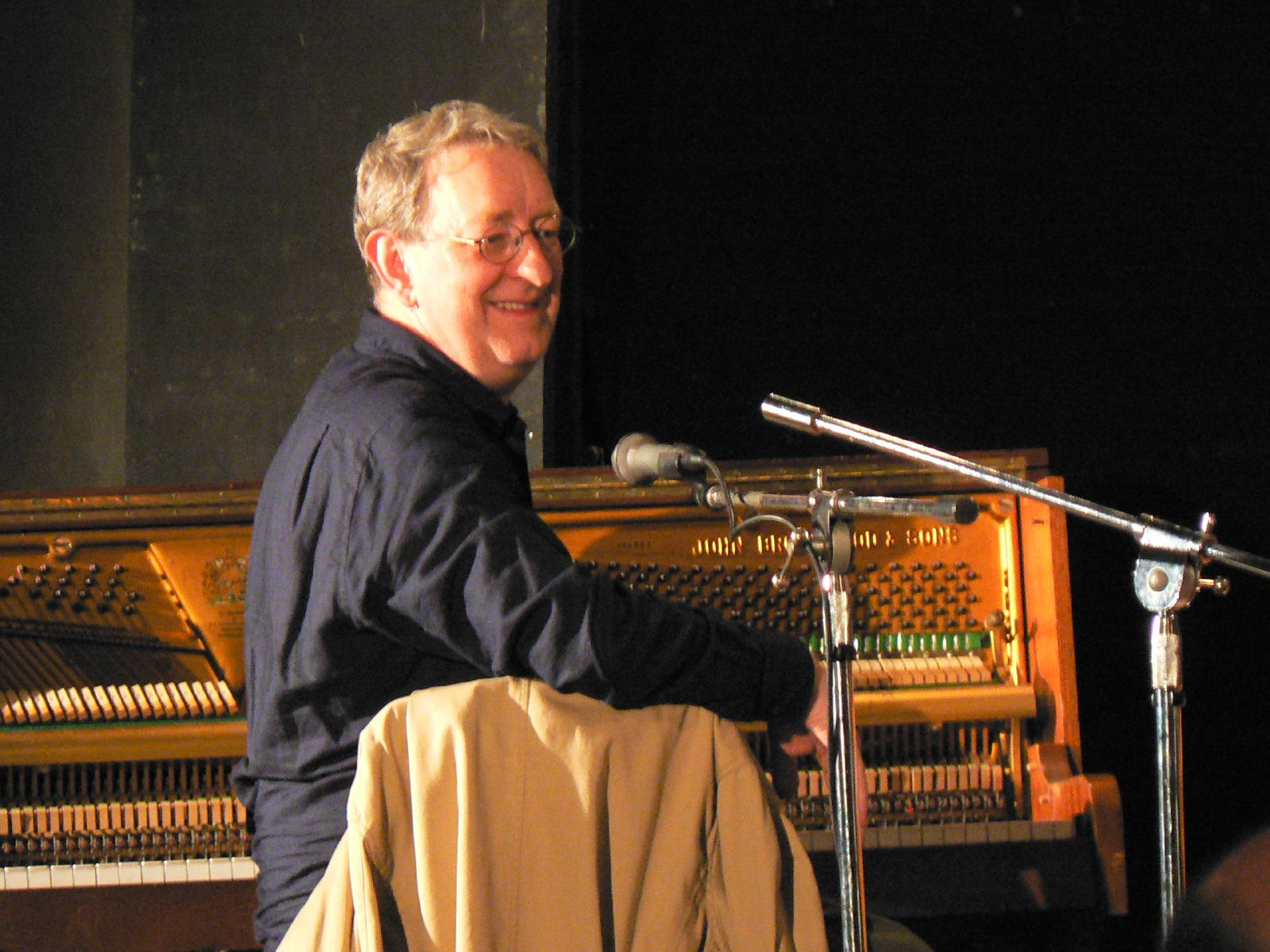 Steve Beresford